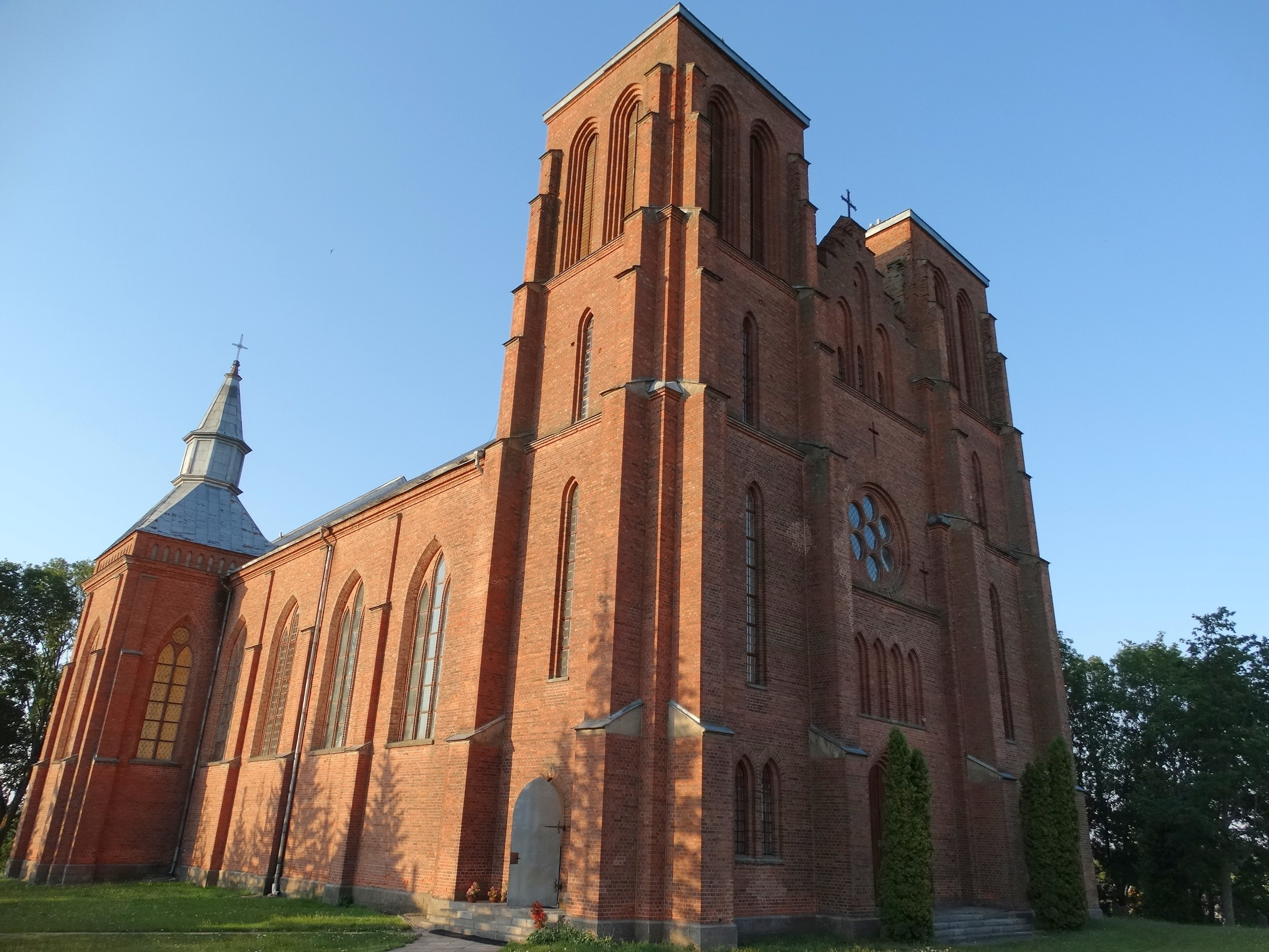 Saint Casimir Church, Kamajai, Rokiškis District, Lithuania